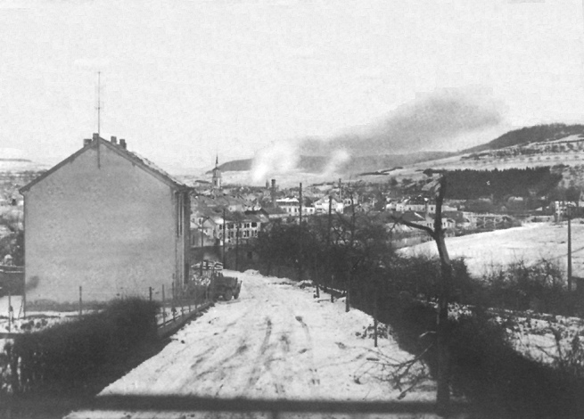 Ettelbruck, Luxembourg